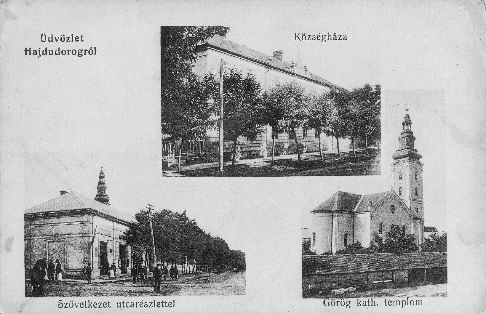 Postcard from Hajdúdorog, Hungary. The 1914 postcard depicts 3 sites of the town: on the top there's the town-hall, on the right the greek catholic cathedral and on the left there's a street view with the greek catholic primary school in the front.